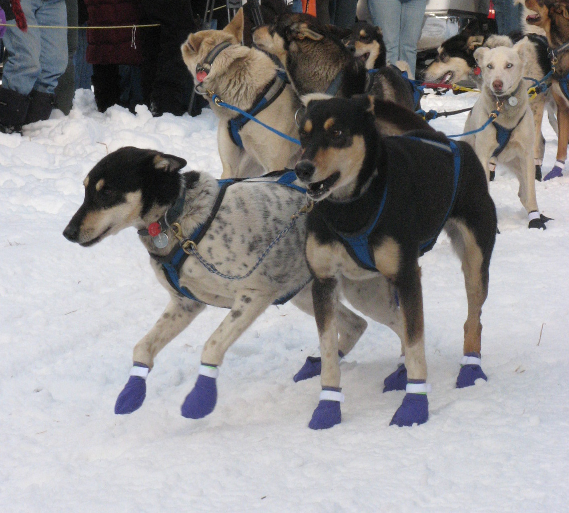 Sled dogs at the 2010 Race to the Sky. The base for this breed is speed not appearance. Race to the Sky began Feb. 13th 2010 in Montana.